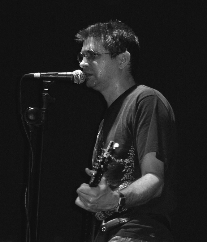 Steve Albini, in concert with Shellac (2007)